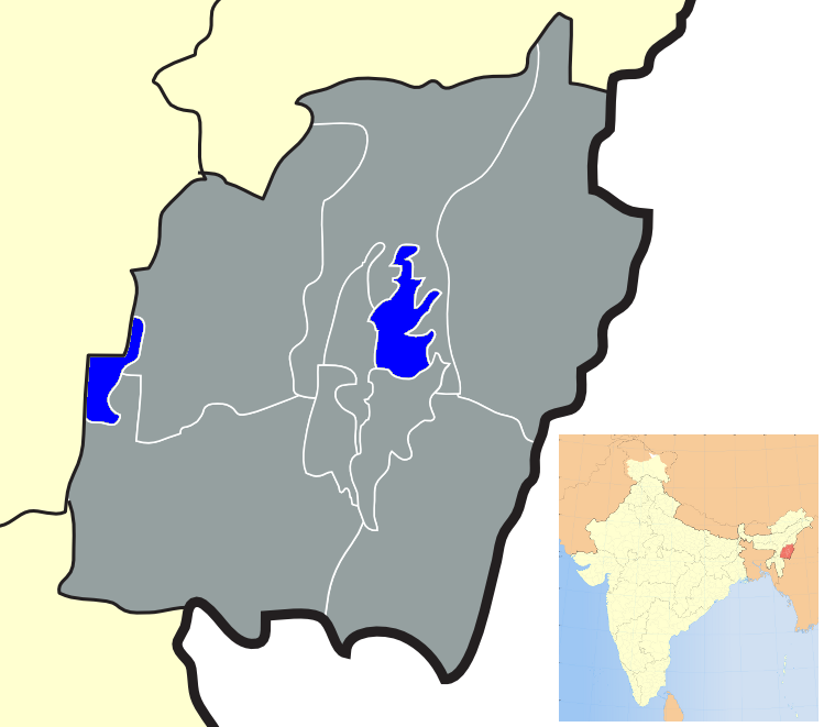 This is a retouched picture, which means that it has been digitally altered from its original version. The original can be viewed here: India Manipur locator map.svg.